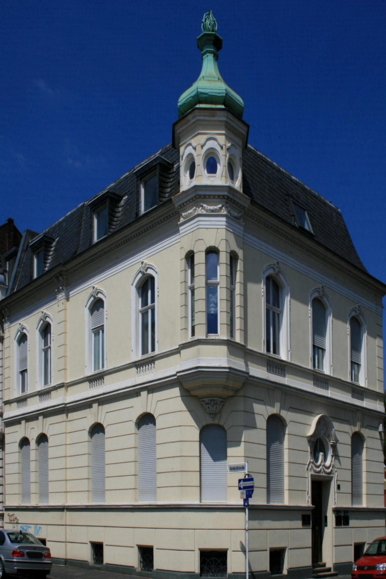 Cultural heritage monument No. K 065 in Mönchengladbach